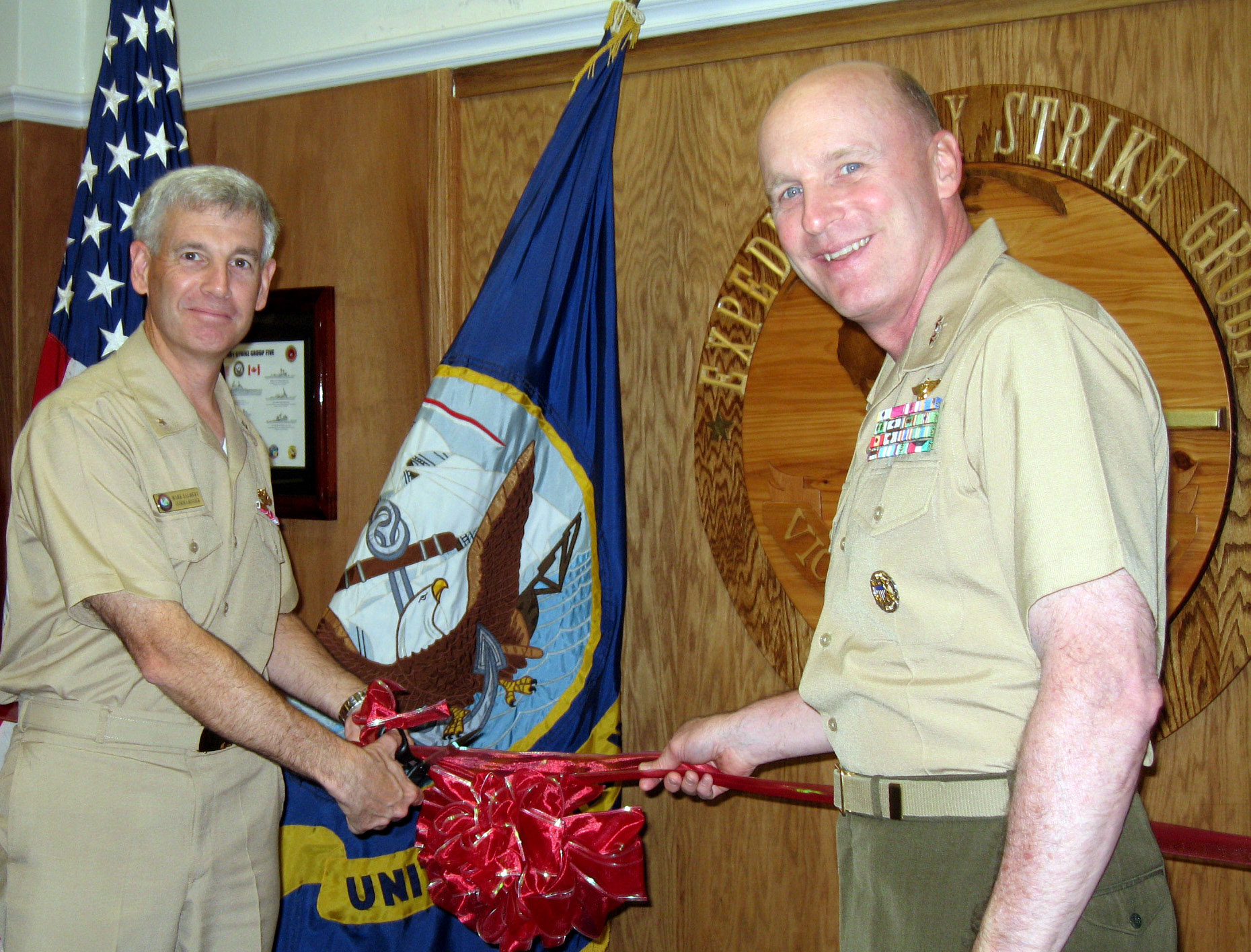 SAN DIEGO (April 17, 2007) - Commander, Expeditionary Strike Group (ESG) 3, Rear Adm. Mark Balmert and Maj. Gen. Carl Jensen commission the newly created ESG-3 with a ribbon cutting ceremony. Balmert previously led ESG-5 and Amphibious Ready Group 3, which were disestablished to better align the operations, administration, and command and control of surface forces within the Pacific Fleet. U.S. Navy photo by Mass Communication Specialist 1st Class Roosevelt Ulloavaldivieso (RELEASED)